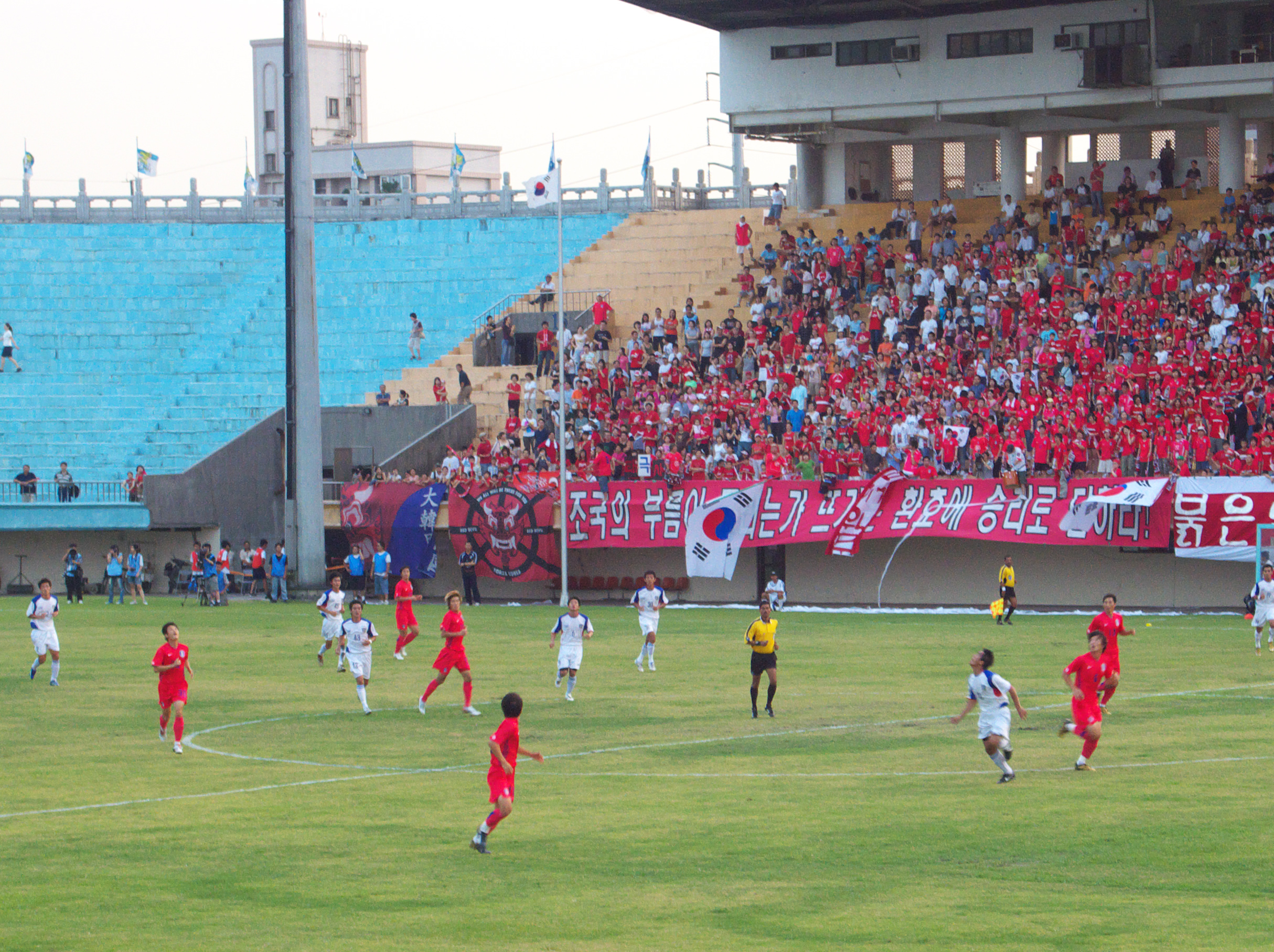 Korea Republic vs. Chinese Taipei